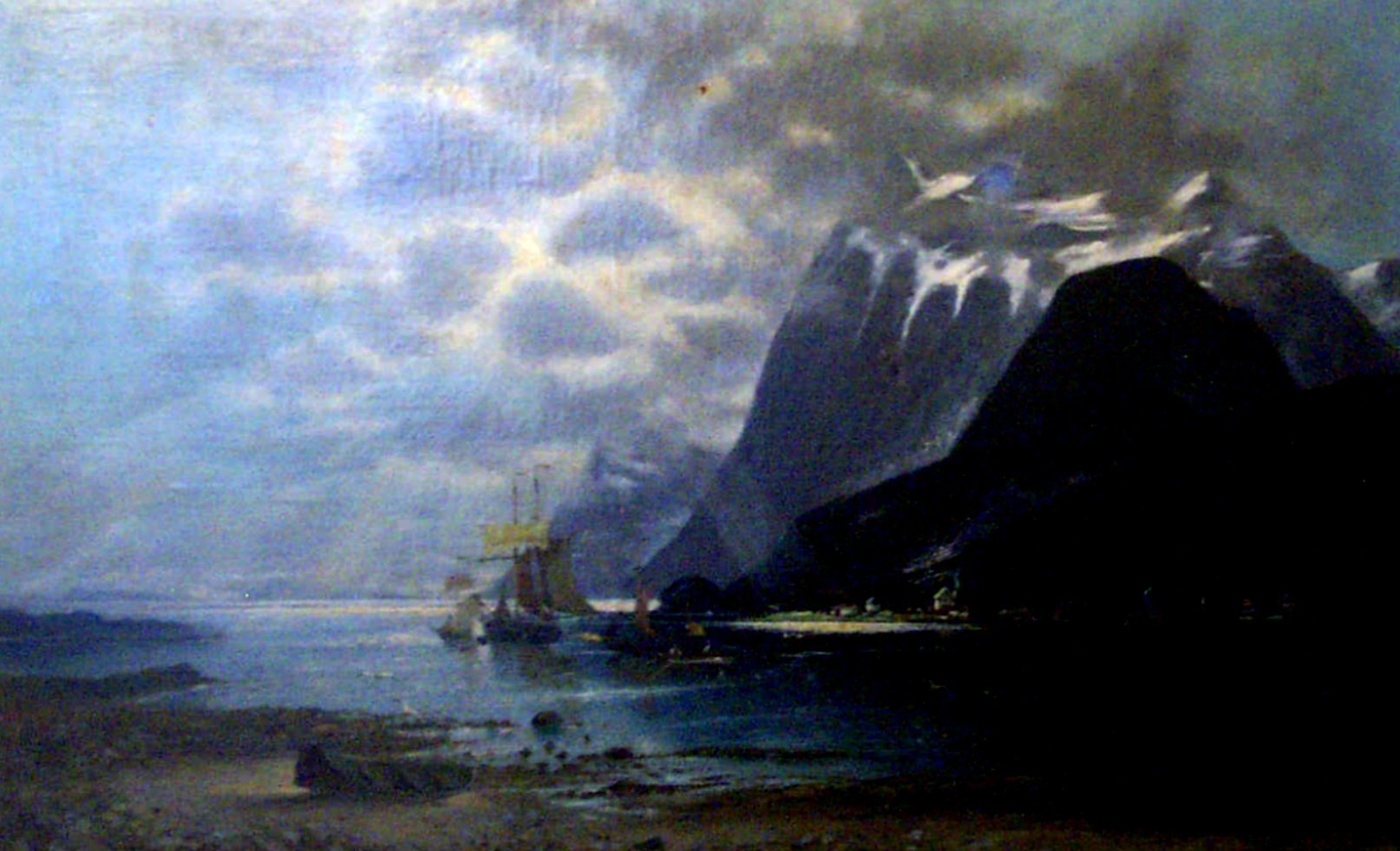 Painting of an unknown norwegian fjord; painted during a tour to Norway in 1844. Unpublished artwork.